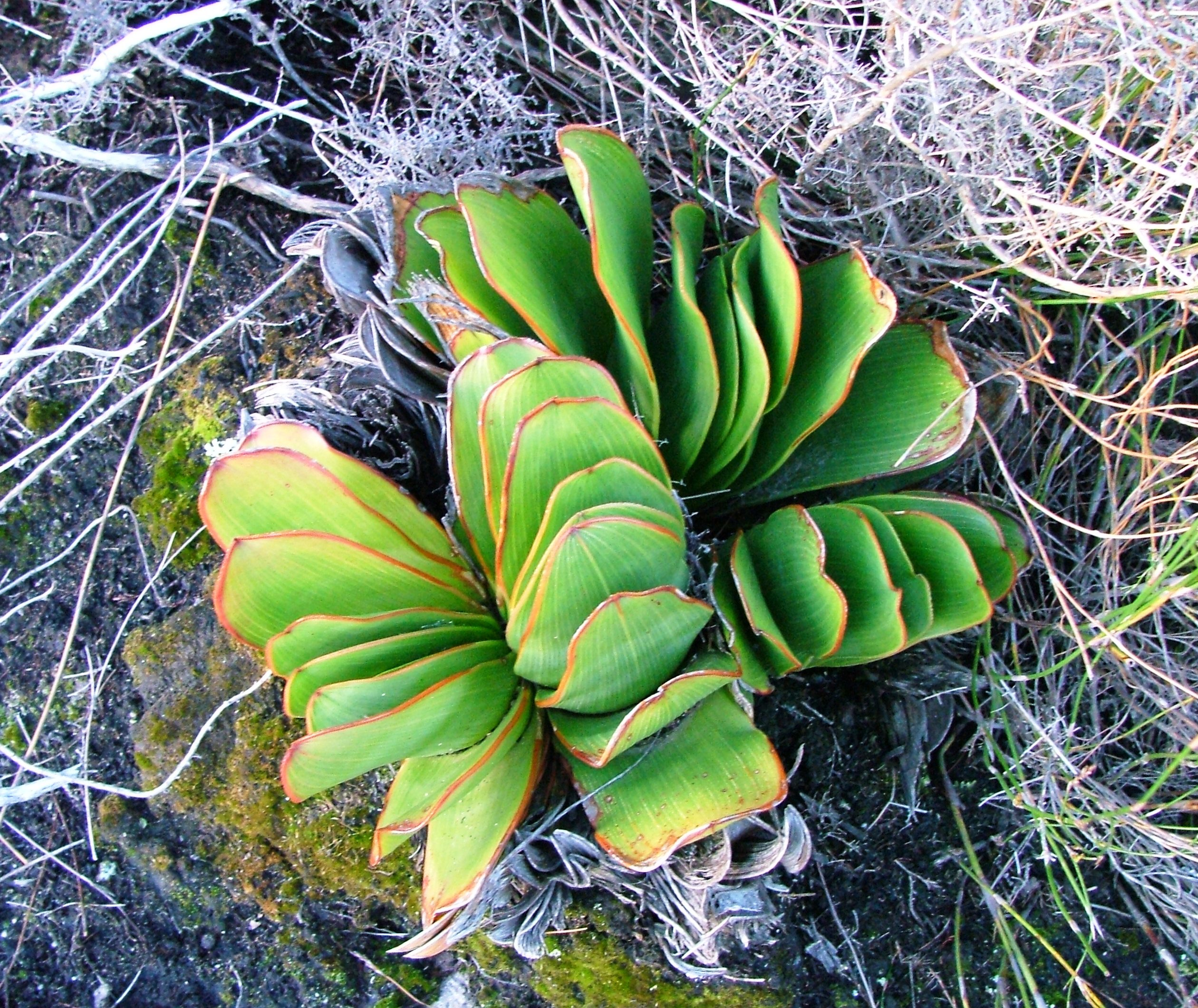 Aloe haemanthifolia. On a mountain peak near Stellenbosch. South Africa.